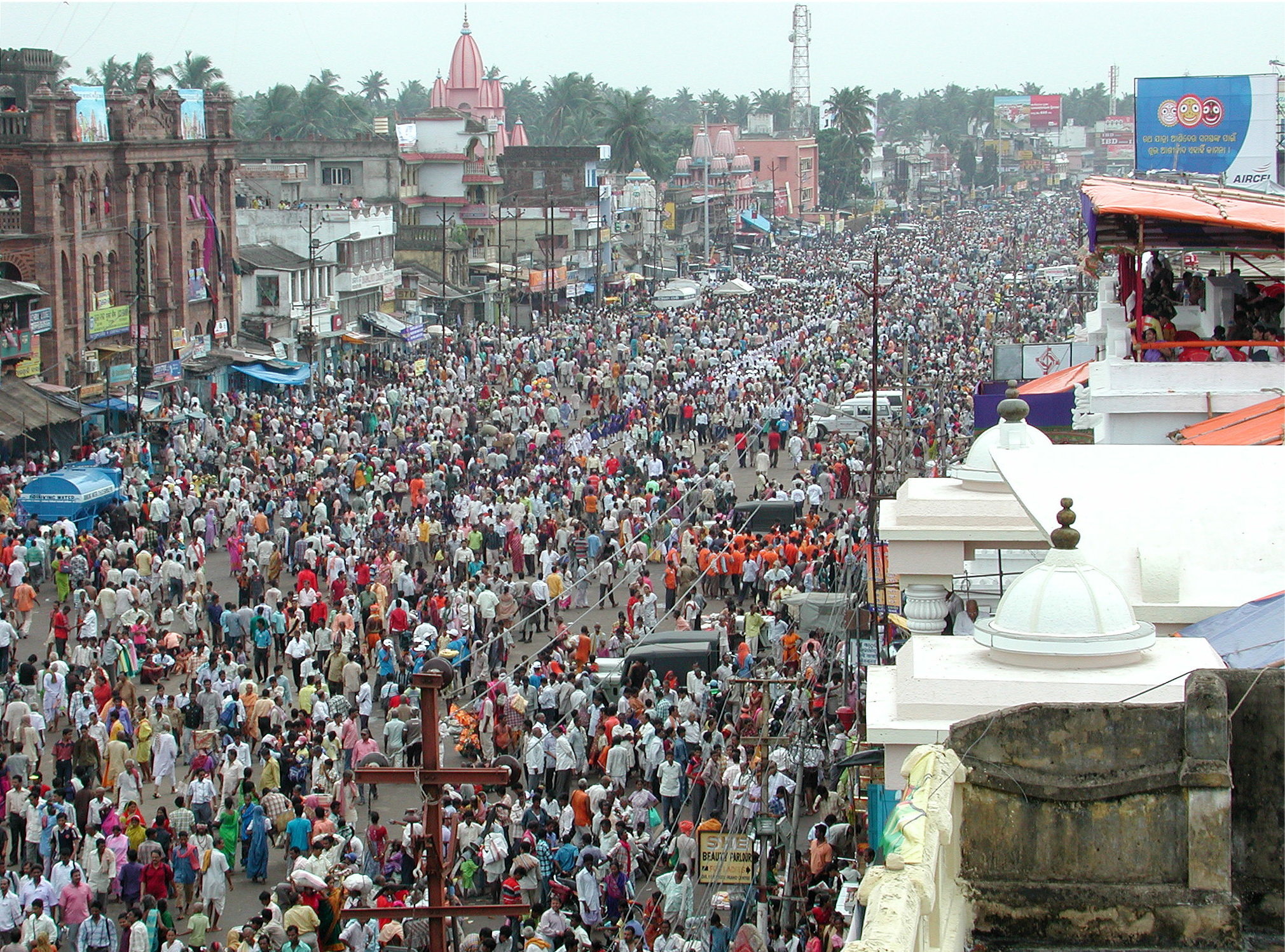 Rath Yatra in Puri, Orissa, India. Looking down main street from roof of Dharmasala.